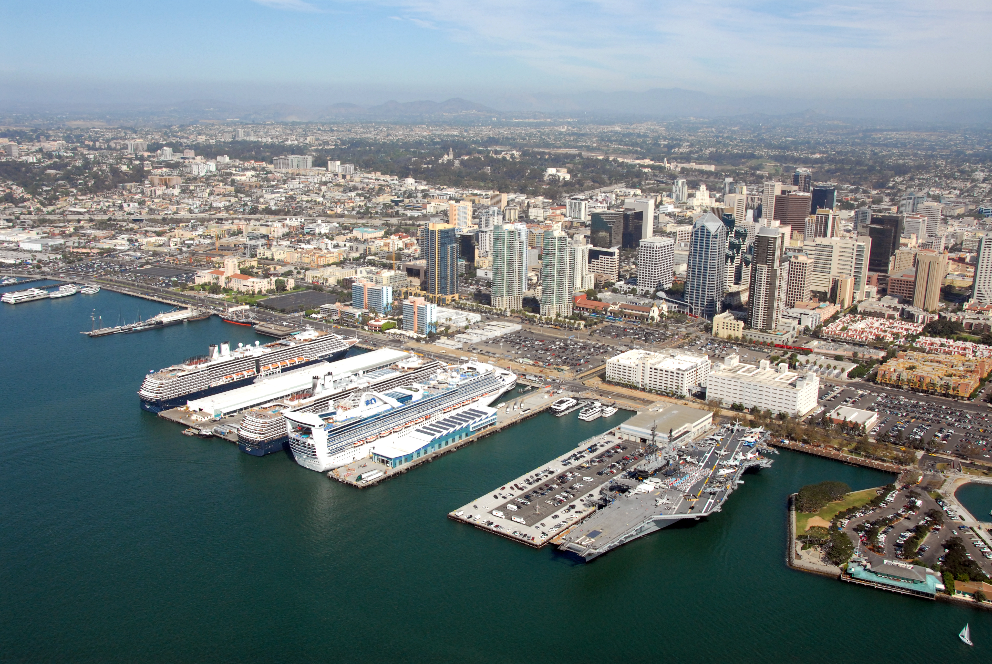 Aerial view of the Port of San Diego with three cruise ships in Port, from Oct. 4, 2012. Also visible is the USS Midway Museum.